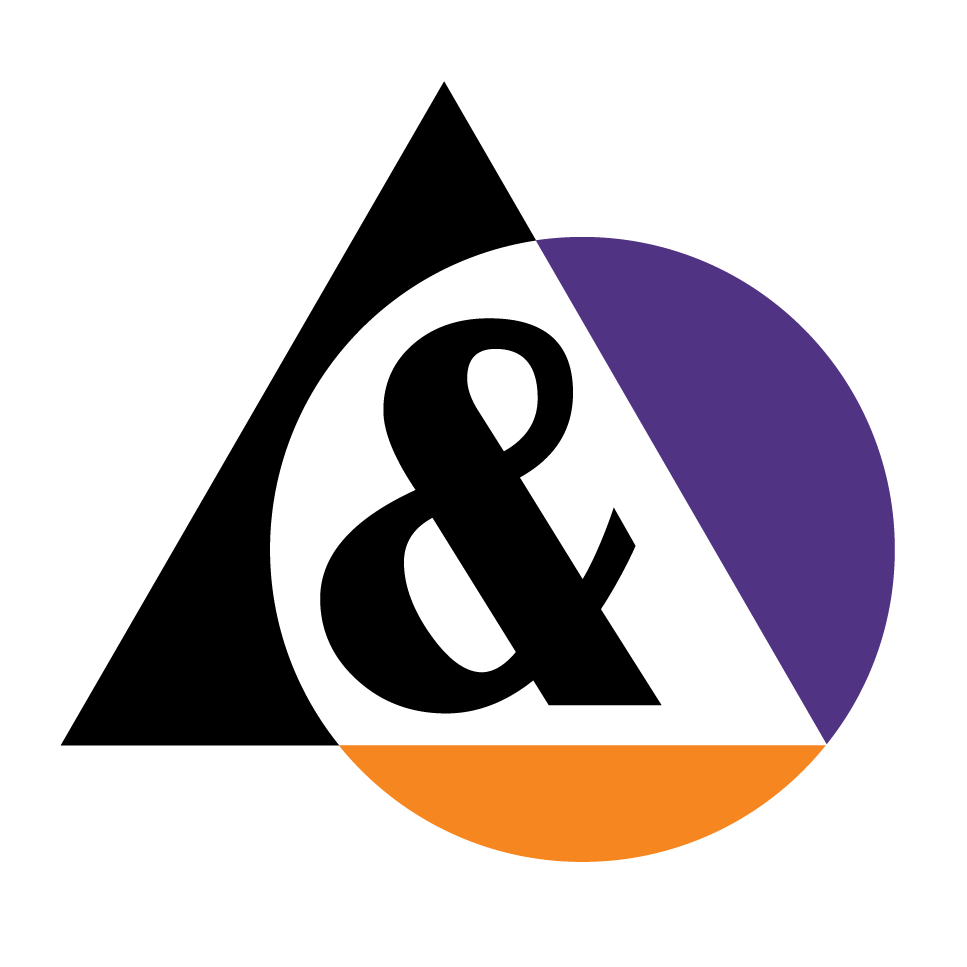 The Logo for McMaster Arts & Science Students